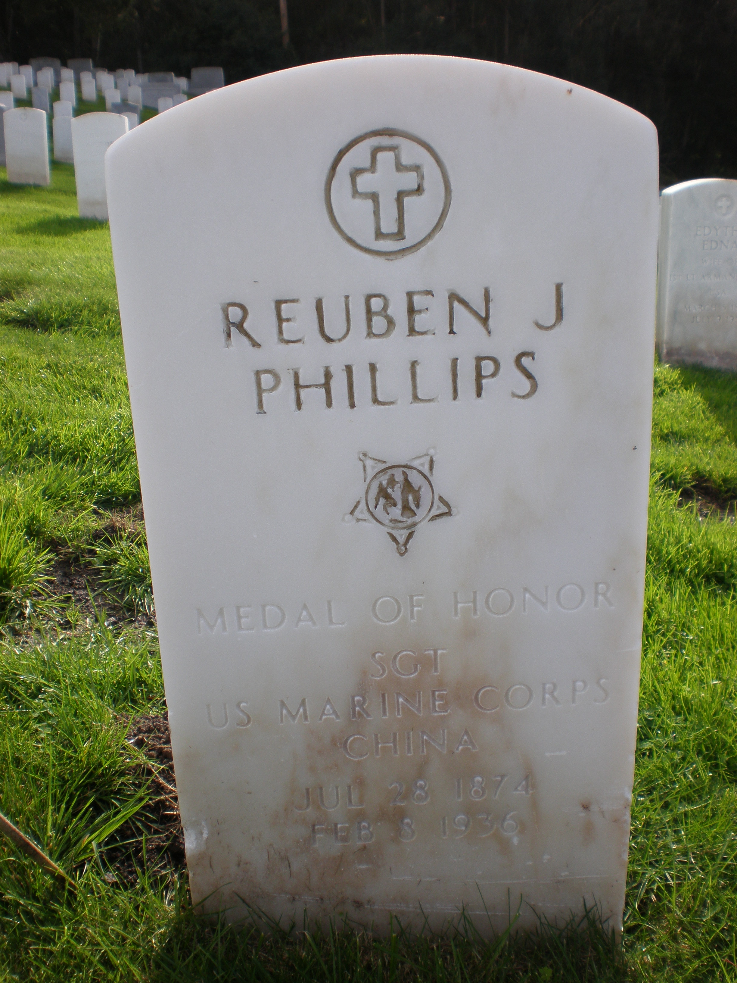 The headstone of Sgt. Reuben J. Phillips, Medal of Honor recipient, at San Francisco National Cemetery in the Presidio of San Francisco.